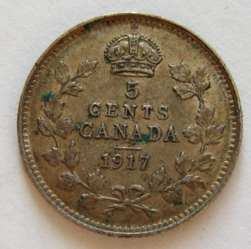 CANADA, GEORGE V 1917---5 CENTS a